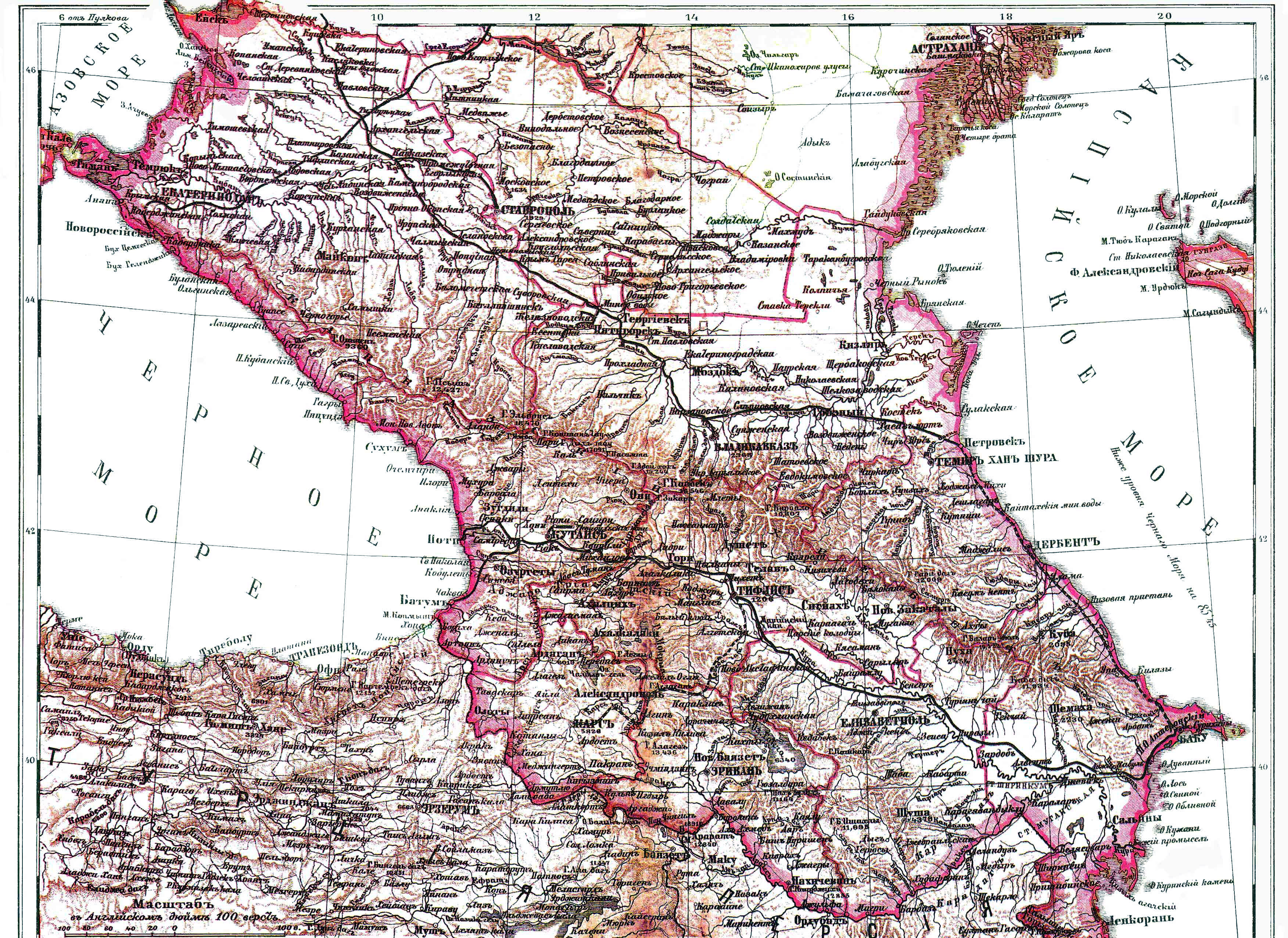 Illustration from Brockhaus and Efron Encyclopedic Dictionary (1890—1907)